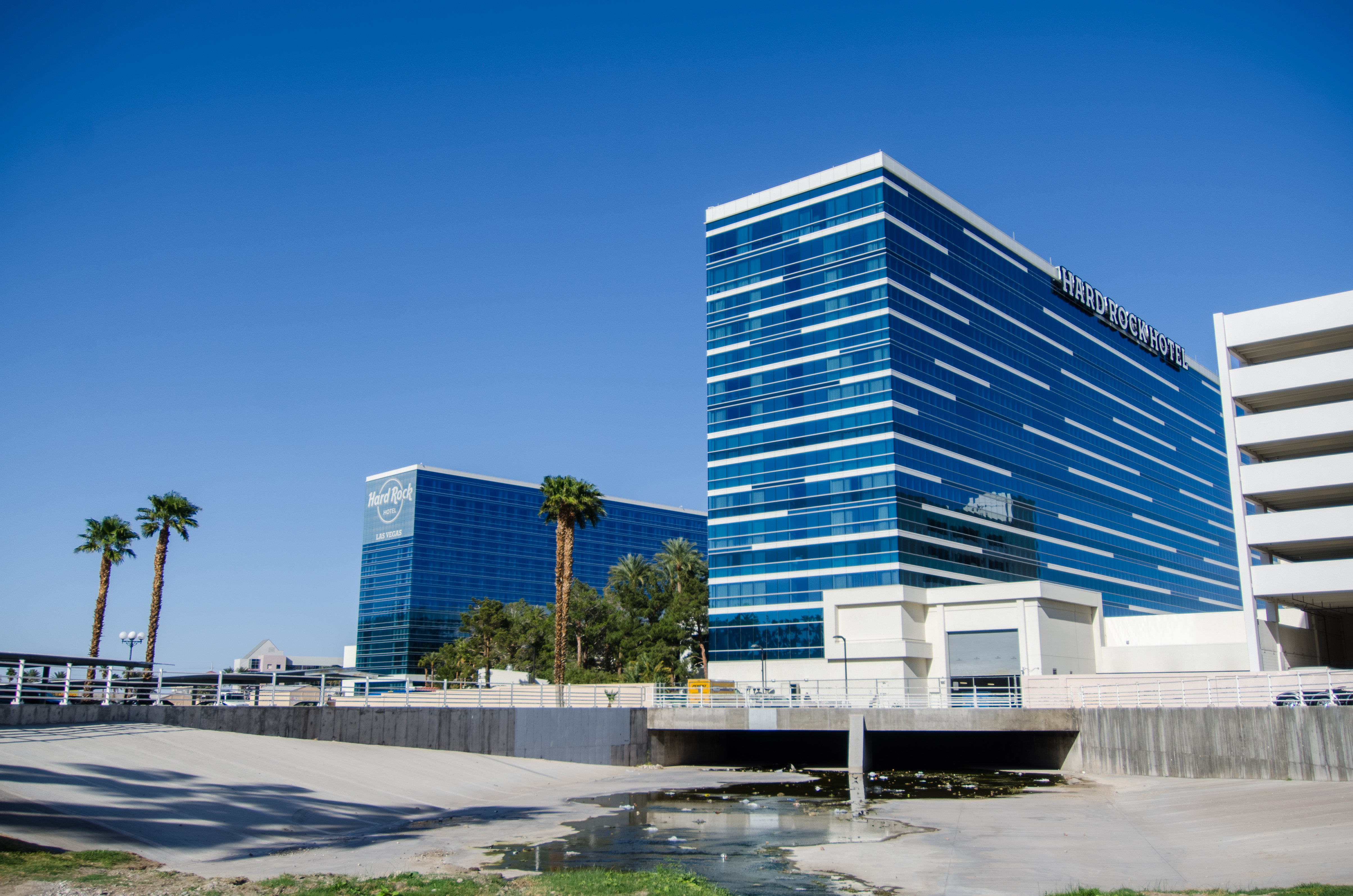 Hotel towers at the Hard Rock Hotel in Las Vegas.